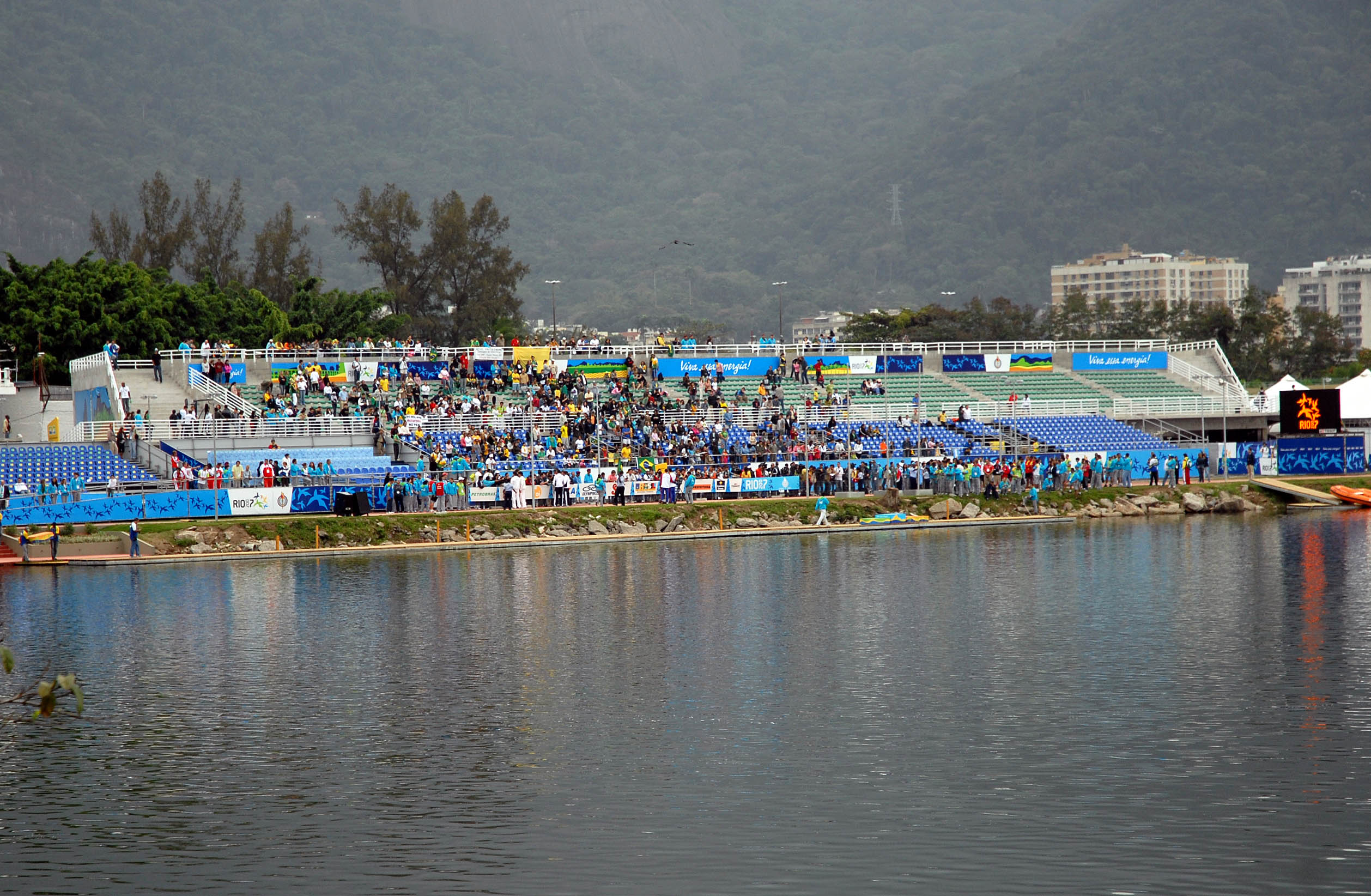 Rowing Stadium of the Lagoon during Rio 1007 Pan American Games